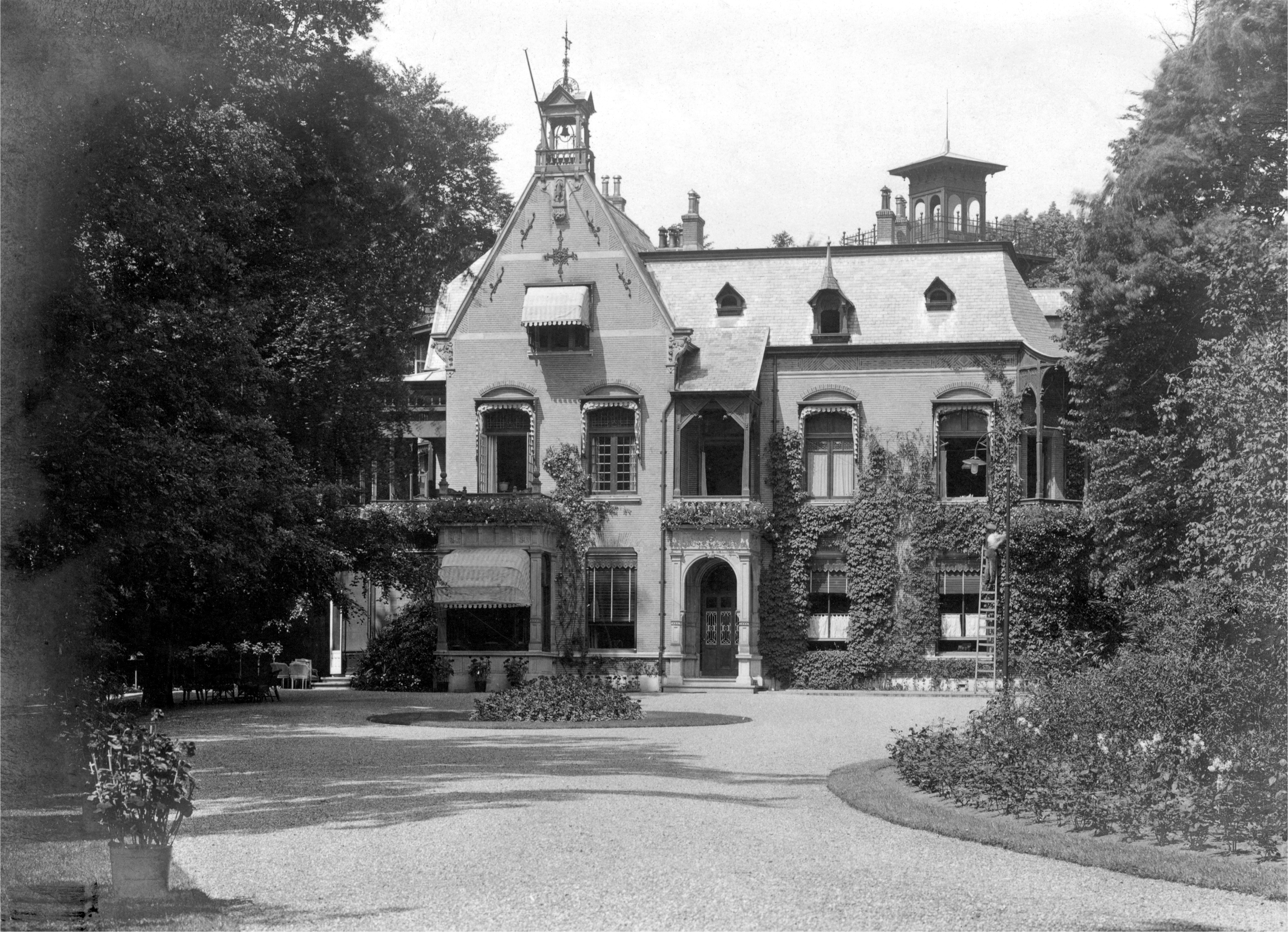 Mansion 'De Rijp', Bloemendaal, about 1915, the mansion of the pioneer and dutch oil explorer Adriaan Stoop. Owned by the Stoop family from 1897 to 1935. Villa De Rijp at Bloemendaalseweg 138 was built in 1892 and demolished in 1960. The architect was Paul du Rieu (1859-1901).